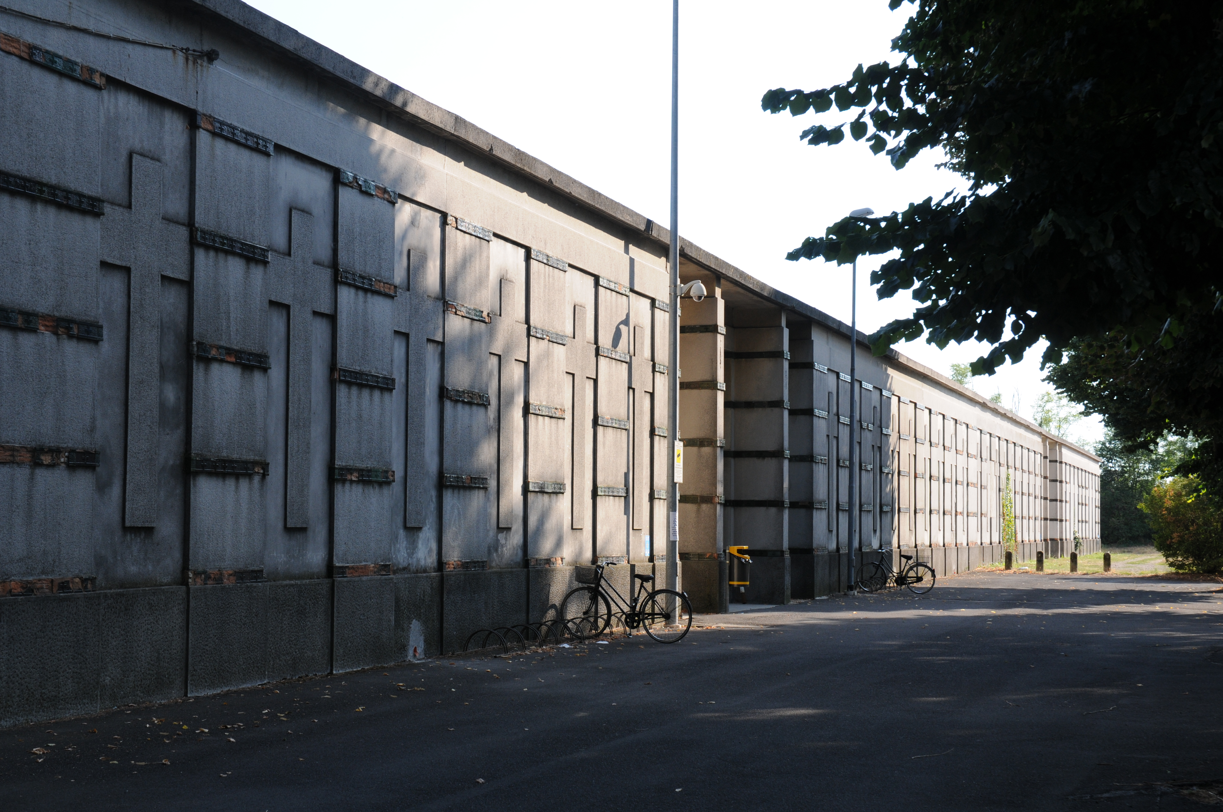 Cemetery in San Giorgio su Legnano (Italy)